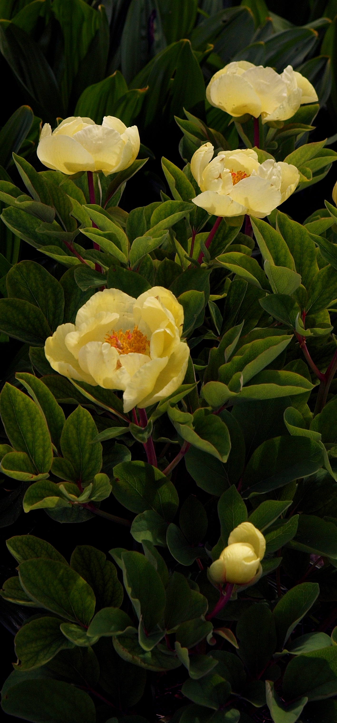 Mlokosewitschs Pfinstrose